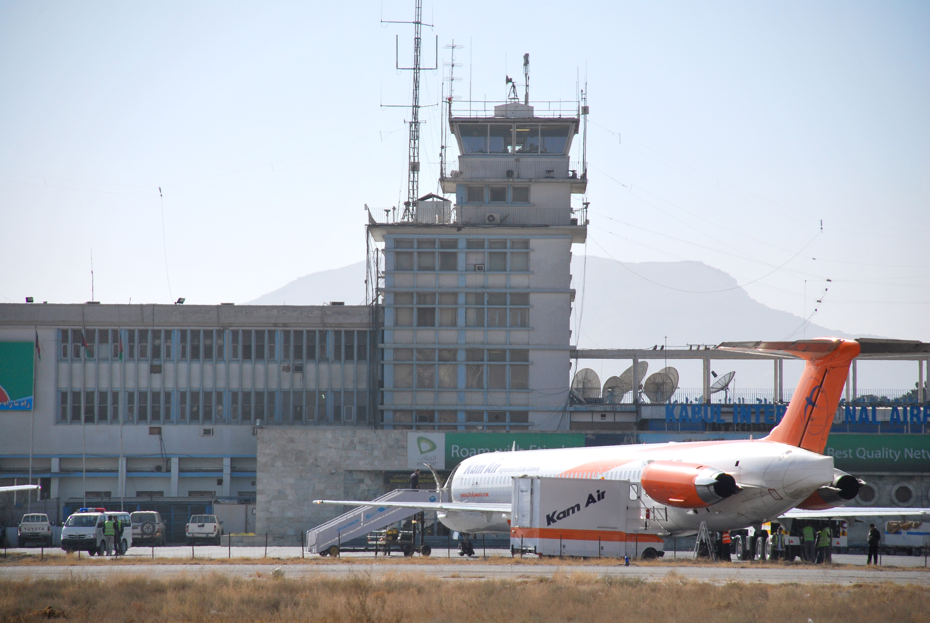 A KamAir aircraft is parked near the Kabul International Airport Air Traffic Control tower, Kabul, Afghanistan, Dec. 13, 2010.